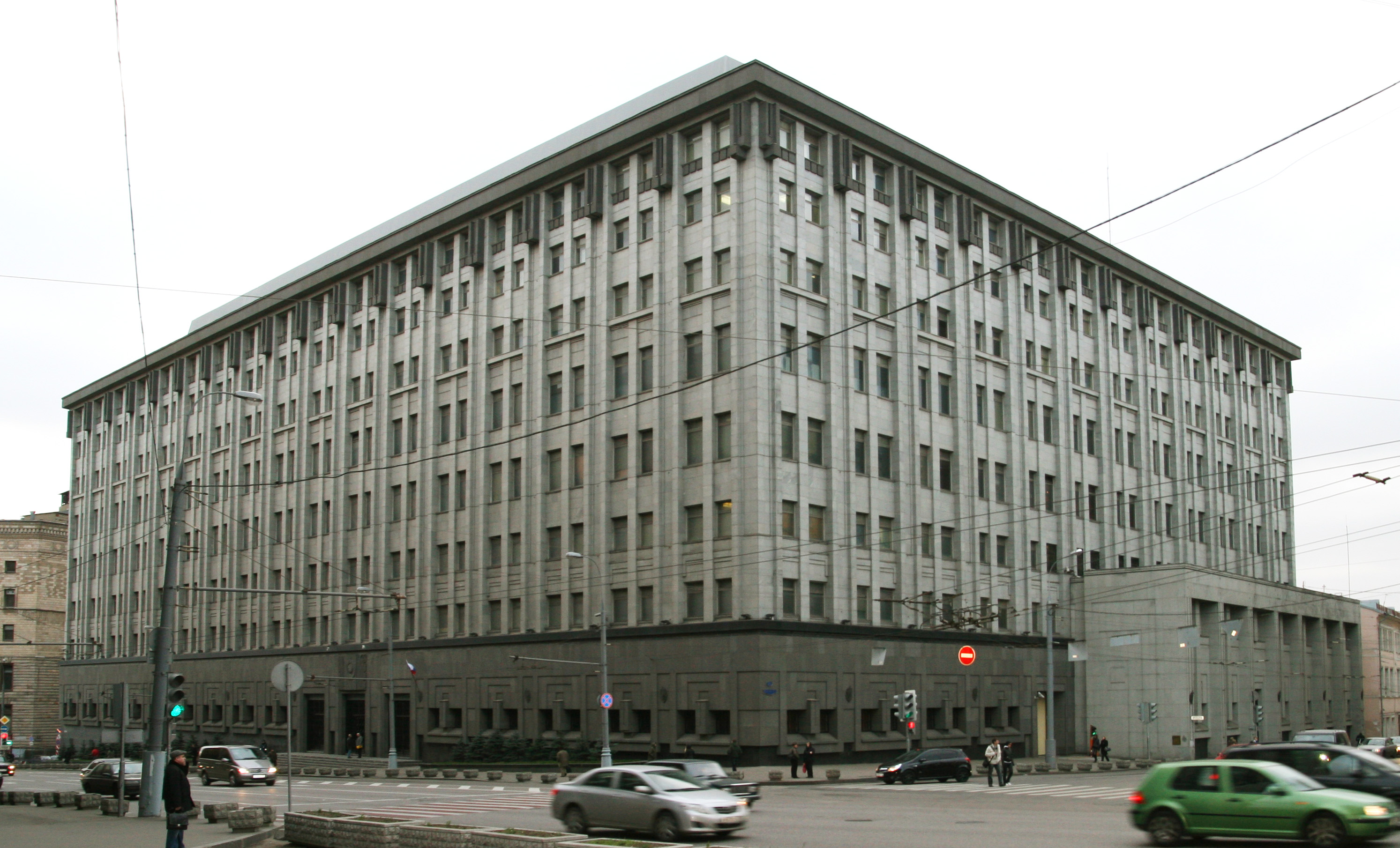 Moscow, Kuznetsky Most Street 24